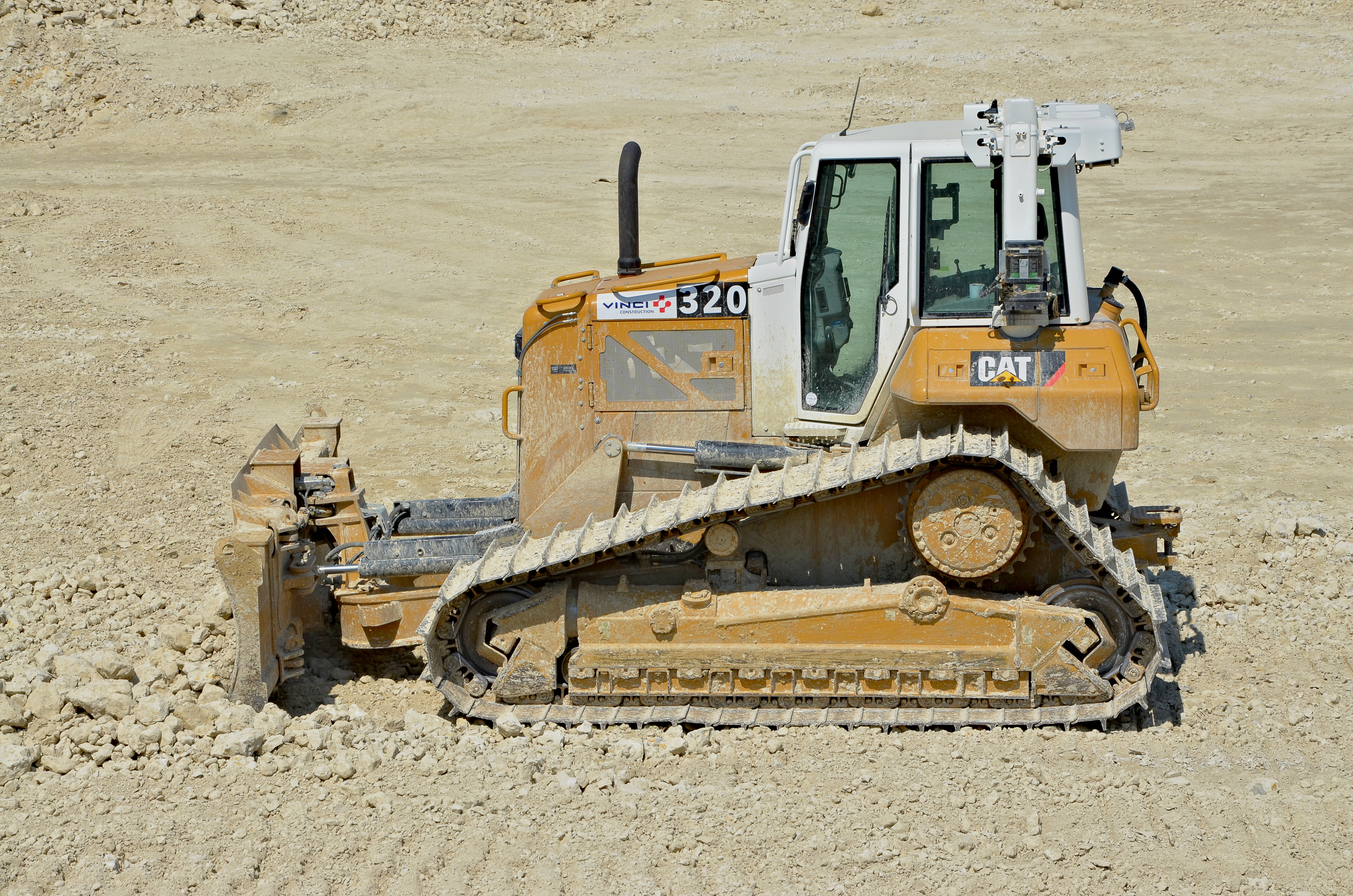 Bulldozer Caterpillar D6 on a site of LGV Sud Europe Atlantique construction, Châtignac, Charente France.